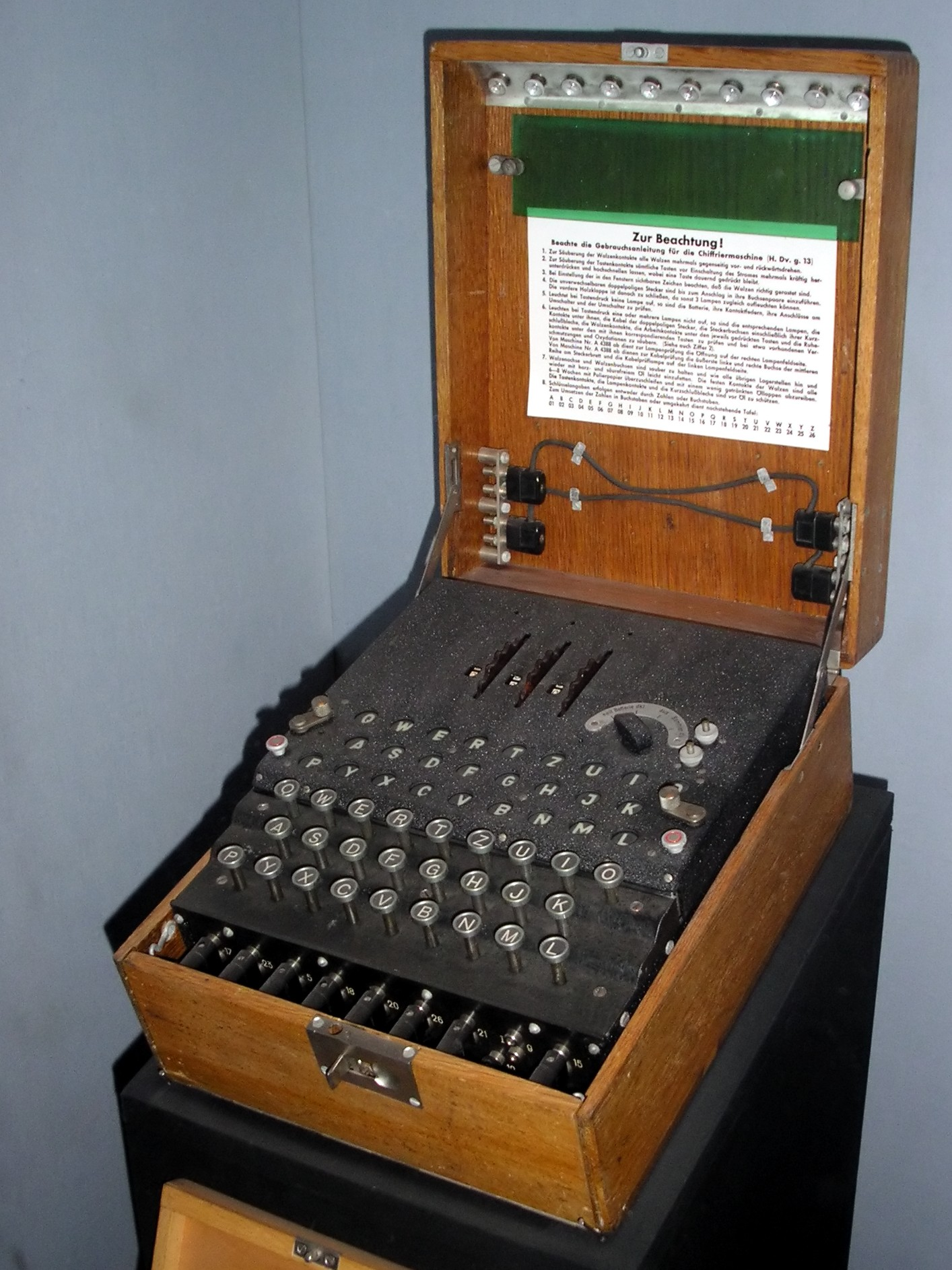 Enigma Machine at the Imperial War Museum, London.